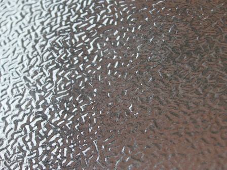 Architecture, Domestic glass, moulded glass.